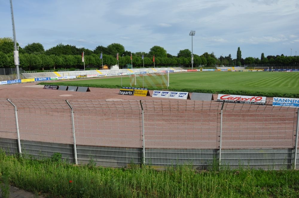 Wormatia-Stadium in Worms, Germany. View from North stand to South stand and back straight after renovation in 2008.